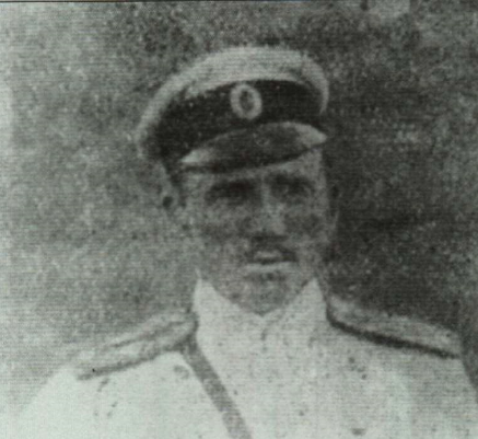 Stamen Panchev - his only picture from the front